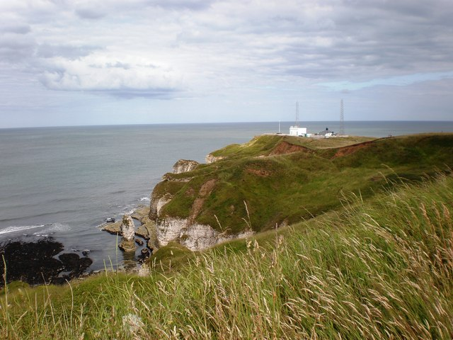 Flamborough Head, Flamborough, East Riding of Yorkshire, England.The coastline at Flamborough Head, renowned for its dazzling white chalk cliffs and stacks, with the Fog Signal Station situated on the most easterly point of the headland.